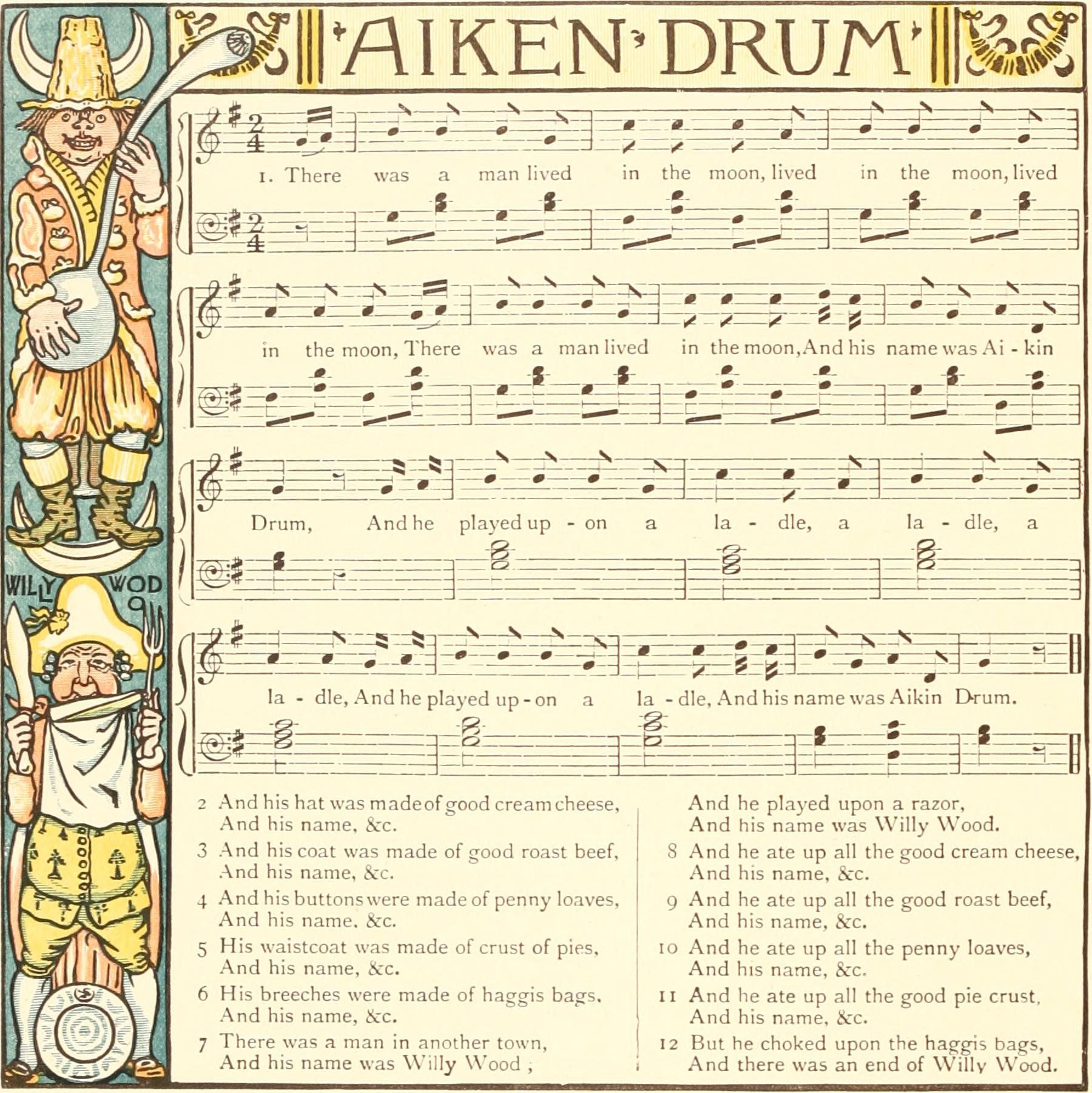 Title: Triplets : comprising, The baby's opera, The baby's bouquet, and The baby's own Æsop Year: 1899 (1890s) Authors: Crane, Walter, 1845-1915 Crane, Lucy, 1842-1882 Evans, Edmund, 1826-1905 Subjects: Publisher: London New York : Routledge Text Appearing Before Image: _ .«- -*- -«- -» :*^i^^:*^=i^?^^l=*~ ^»^ ~~;~~*~*—»—* ~T~m— —^—- nzi^riir^— ^ i n ^ ^ m—.; ^— EE~E^E * --- 1 Drum, And he played up - on a la - die, a la - die, a la - die, And he played up-on a la - die, And his name was Aikin Drum.I- =»= zqrr he playedhis namehe ate uphis name,he ate uphis name,he ate uphis name,he ate uphis name,he chokedthere was And his hat was madeofgood cream cheeseAnd his name, &c. AndAnd 8 AndAnd 9 AndAnd 10 AndAnd 11 AndAnd 12 ButAnd upon a razor,was Willy Wood.all the good cream cheese&c. all the good roast beef,&c. all the penny loaves,&c. all the good pie crust,&c. And his coat was made of good roast beefAnd his name, &c. And his buttons were made of penny loavesAnd his name, &c. His waistcoat was made of crust of pies, And his name, &c. His breeches were made of haggis bags. And his name, &c. There was a man in another town, And his name was \YiIly Wood , upon the haggis bags,an end of Willy Wood. Text Appearing After Image: IIO